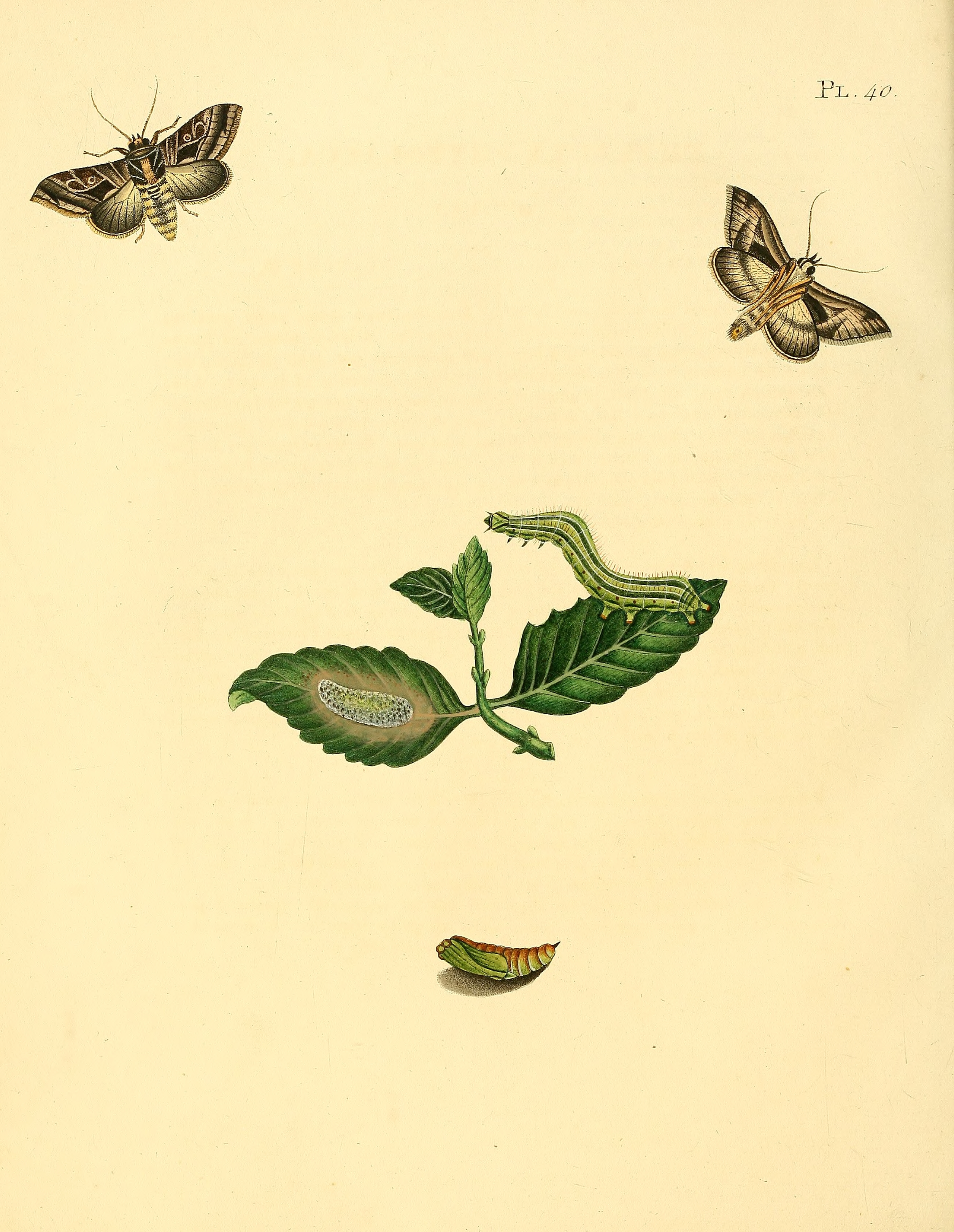 Illustration of: Enigmogramma phytolacca (as syn. Phalaena phytolacca)